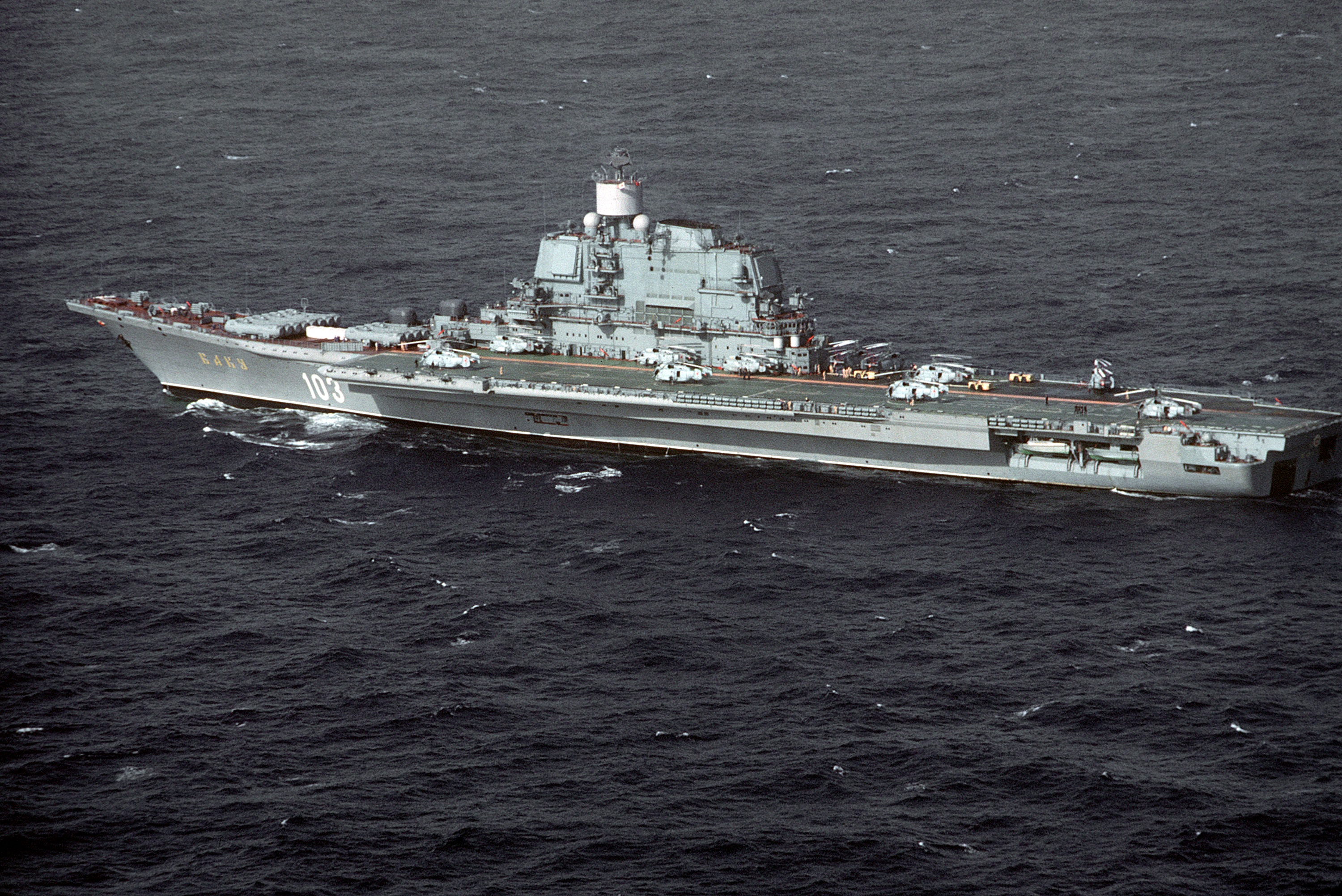 A port view of the Soviet Kiev class VSTOL aircraft carrier BAKU (CVHG 103) underway.